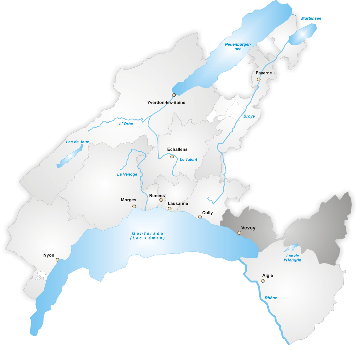 District Riviera - Pays-d'Enhaut from 2008